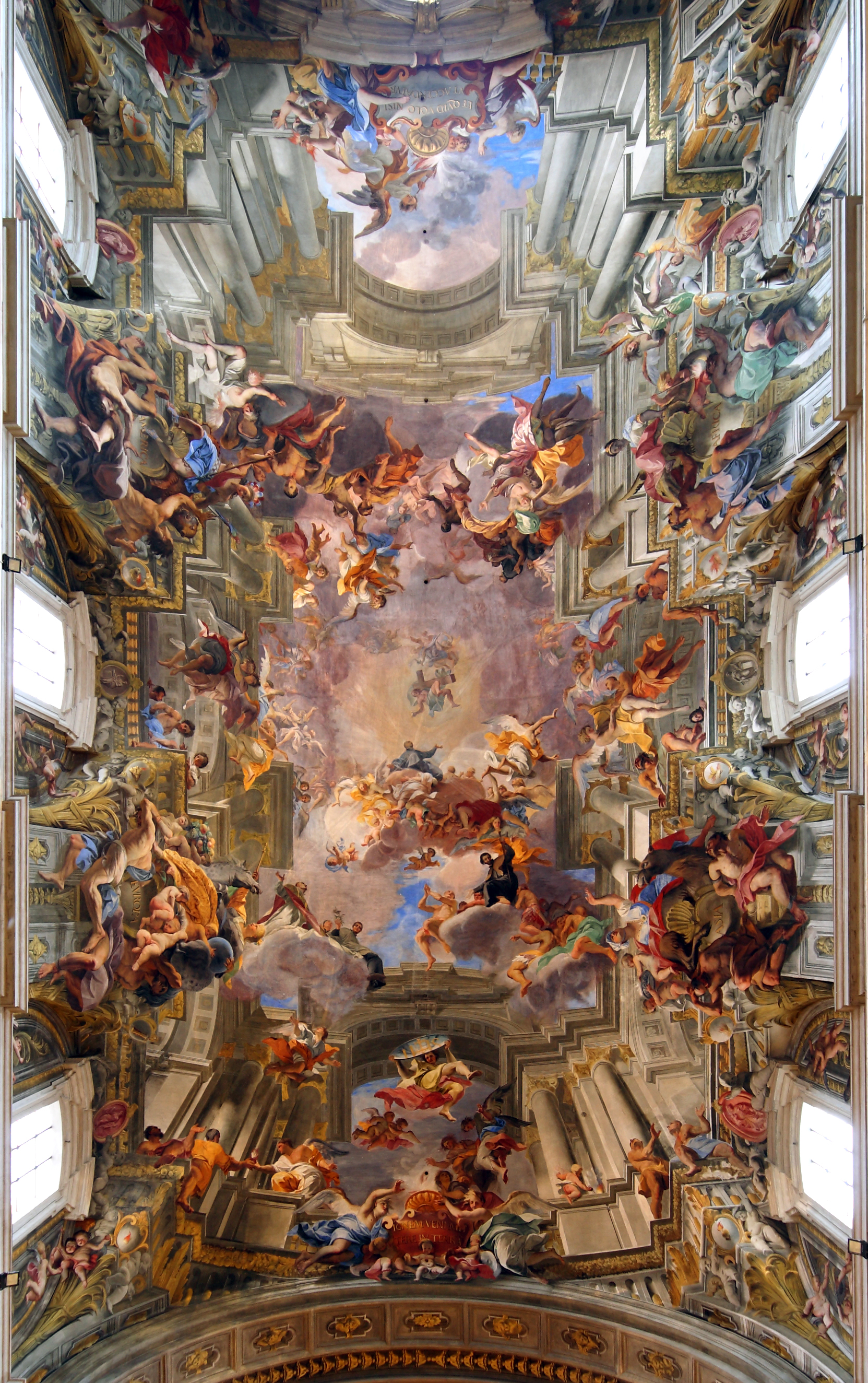 Trompe l'oeil ceiling fresco by Andrea Pozzo. The ceiling is completely flat, including the dome on the left. The photograph is taken from floor level in the centre of the church. The illusion effect of the dome is slightly better from a higher vantage point (eye level).